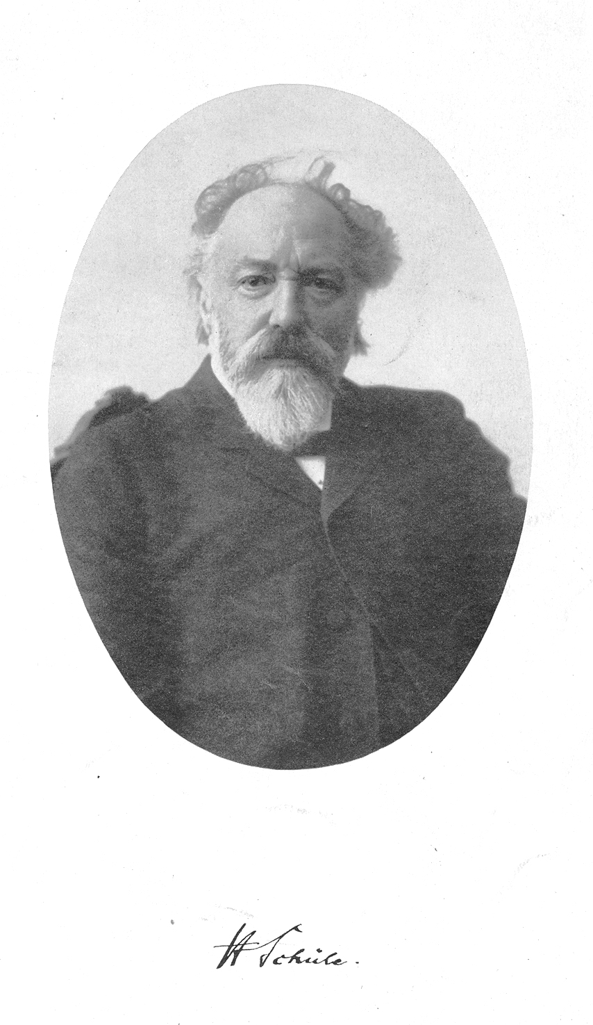 Heinrich Schüle (1840-1916)